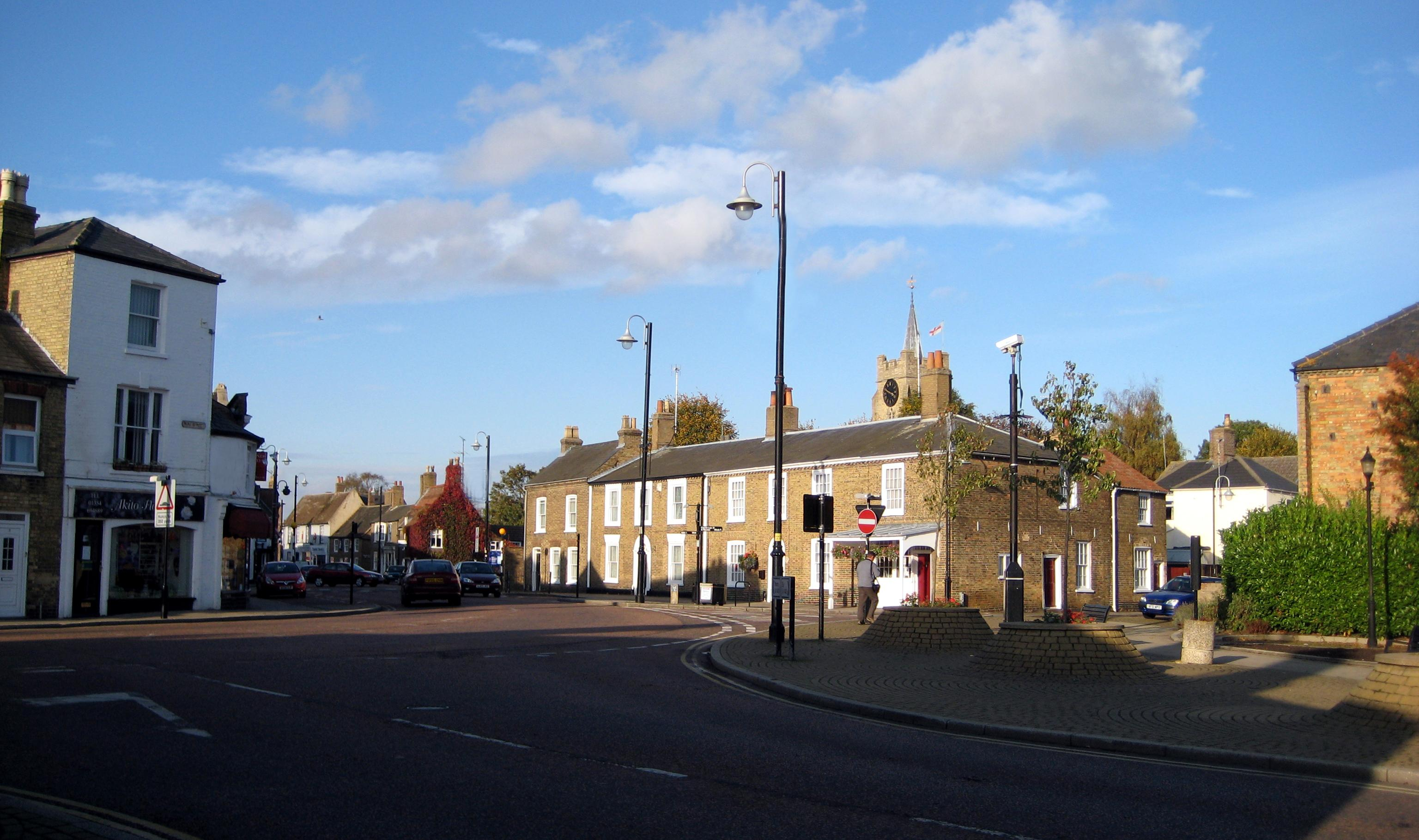 Market Hill, Chatteris, Cambridgeshire looking towards the High Street.